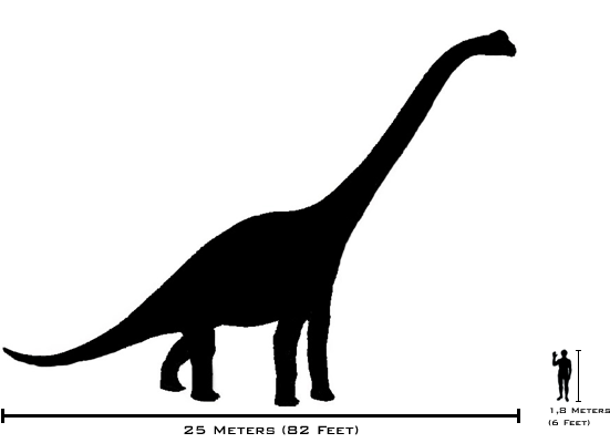 Size comparison between the giant sauropod dinosaur Giraffatitan and a human